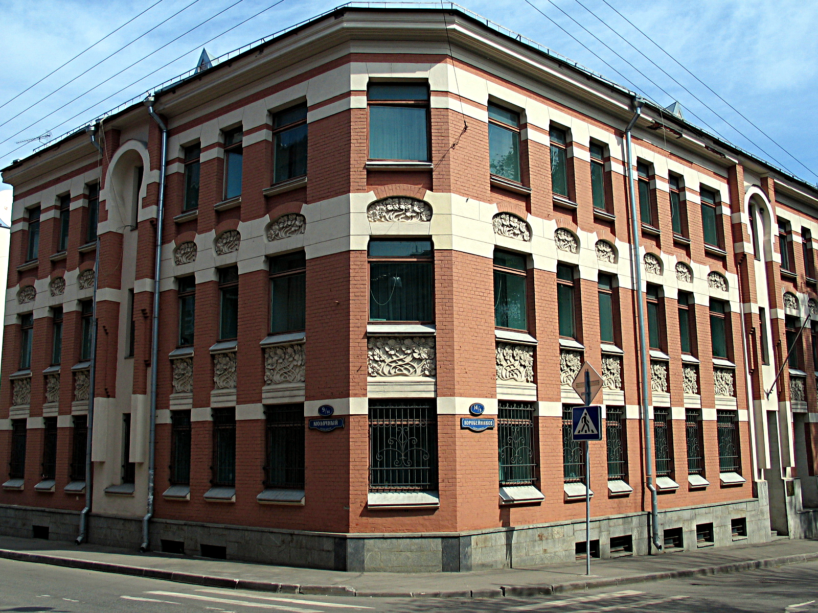 Building of the Embassy of Côte d’Ivoire in Moscow